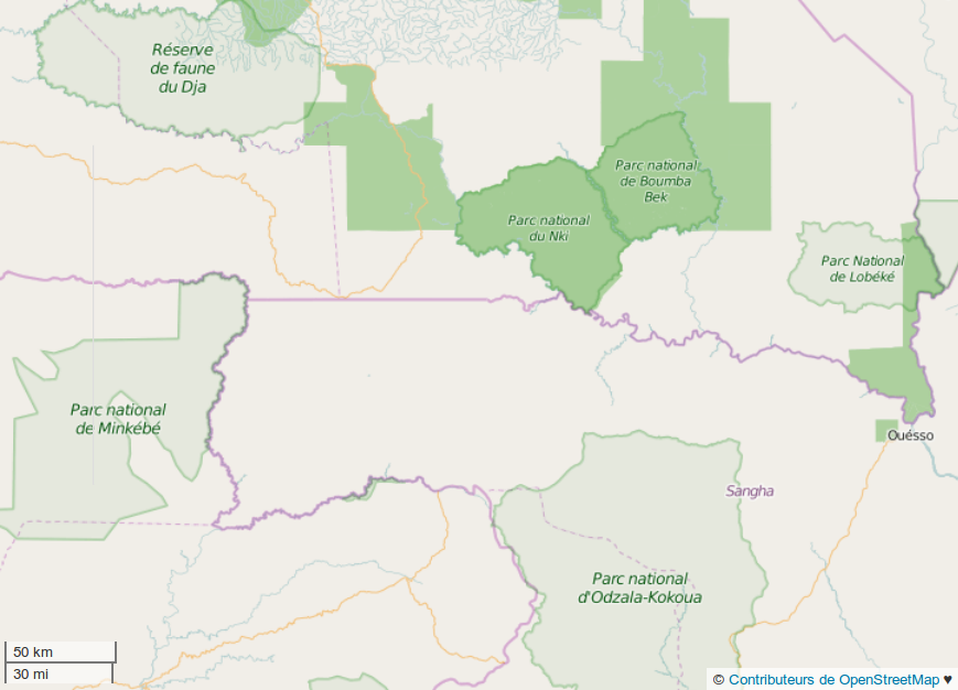 Nki National Park in Cameroon (OSM). This map may be incomplete, and may contain errors. Don't rely solely on it for navigation.